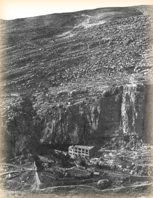 Wadi-Faran